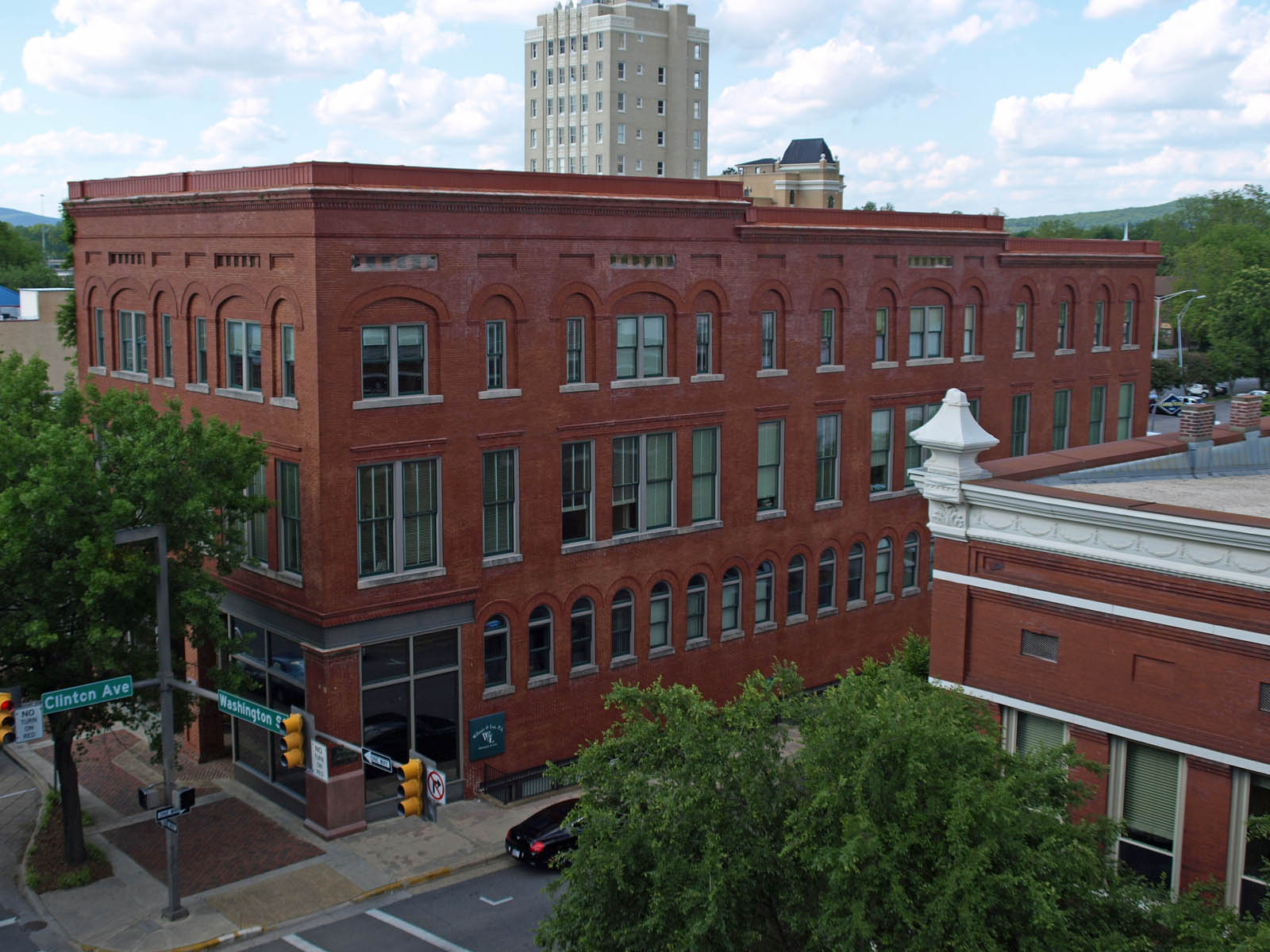 The Dunnavant's Building in Huntsville, Alabama, listed on the National Register of Historic Places.